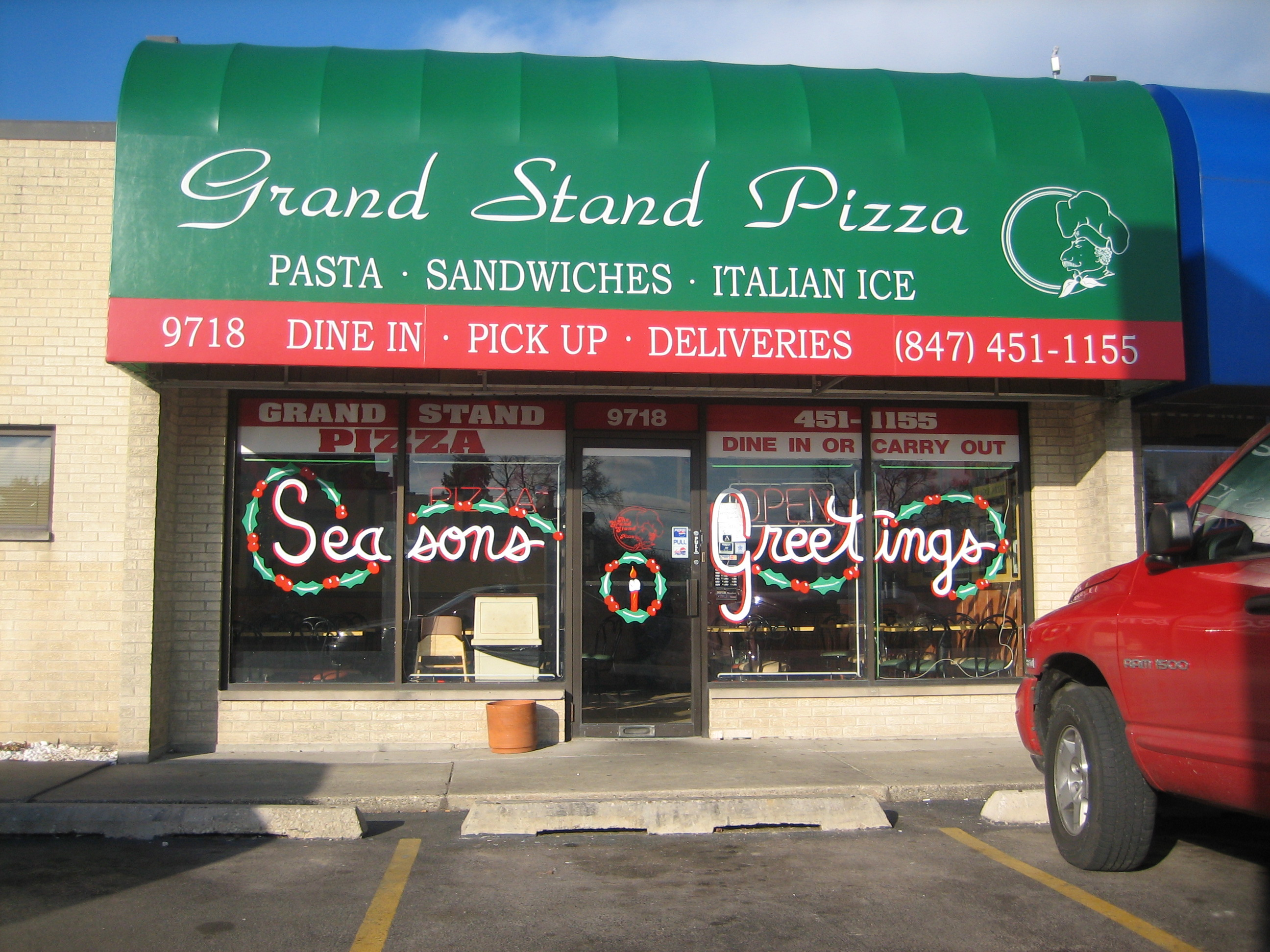 Grand Stand Pizza on Grand Ave., Franklin Park, Illinois A photo I took in December 2006